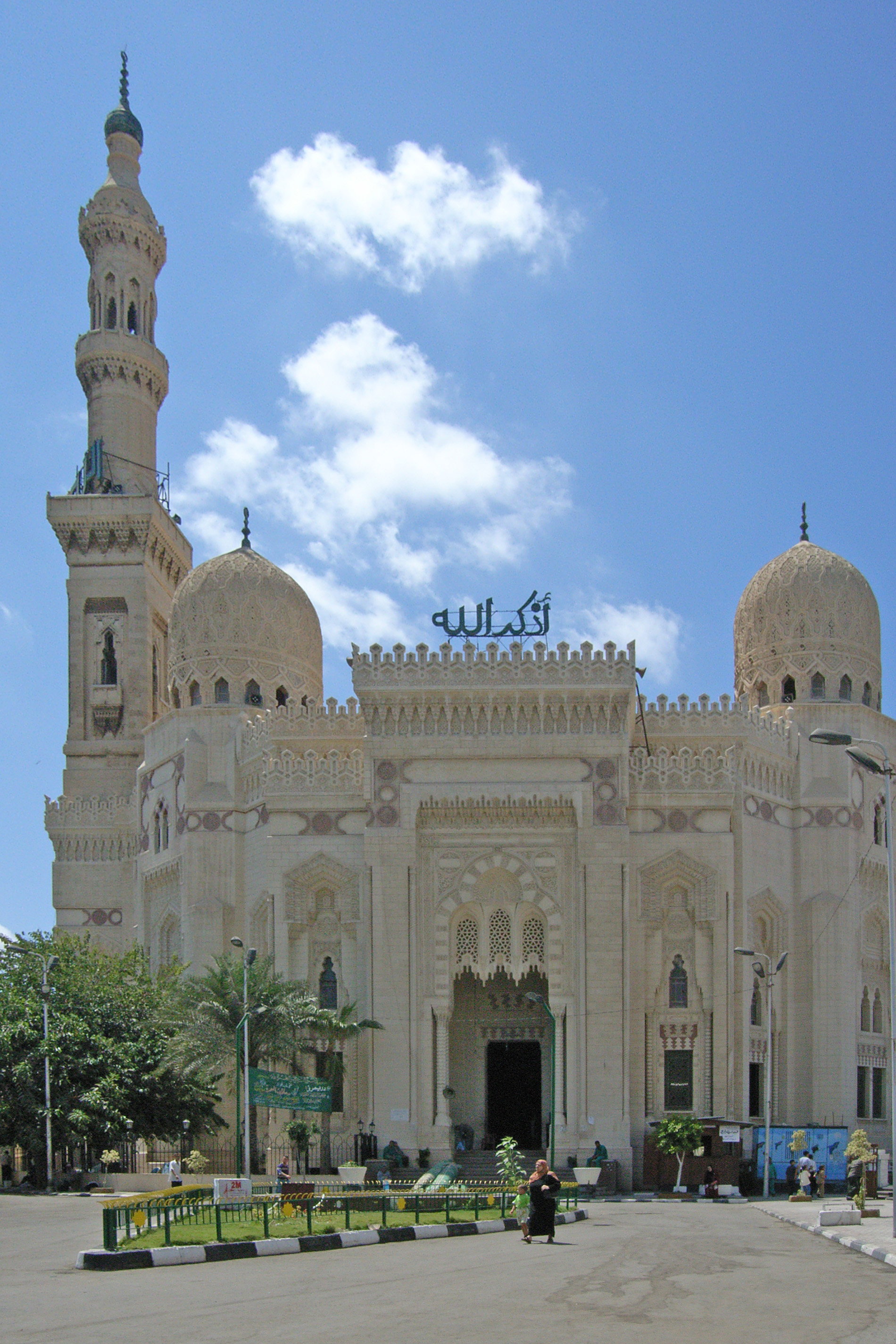 Mosque of Abu al-Abbas al-Mursi, Alexandria, Egypt